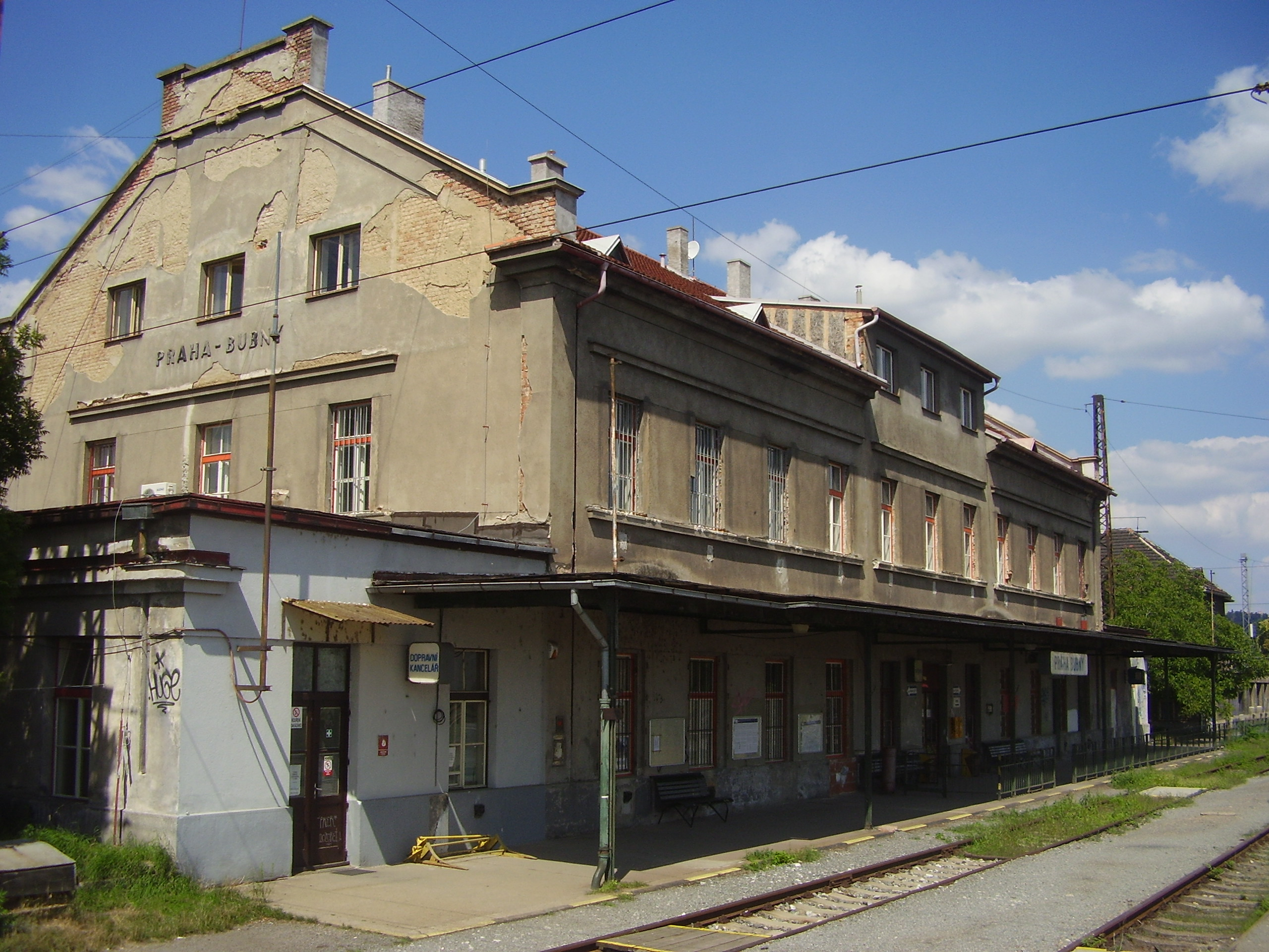 Train stop Praha-Bubny